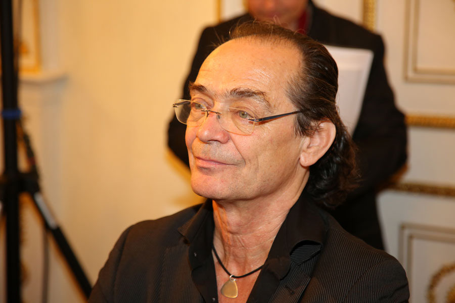 Christian Kolonovits-8726